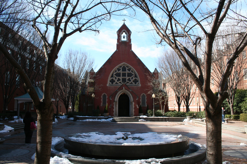 Photo of Dahlgren Quadrangle at Georgetown University.